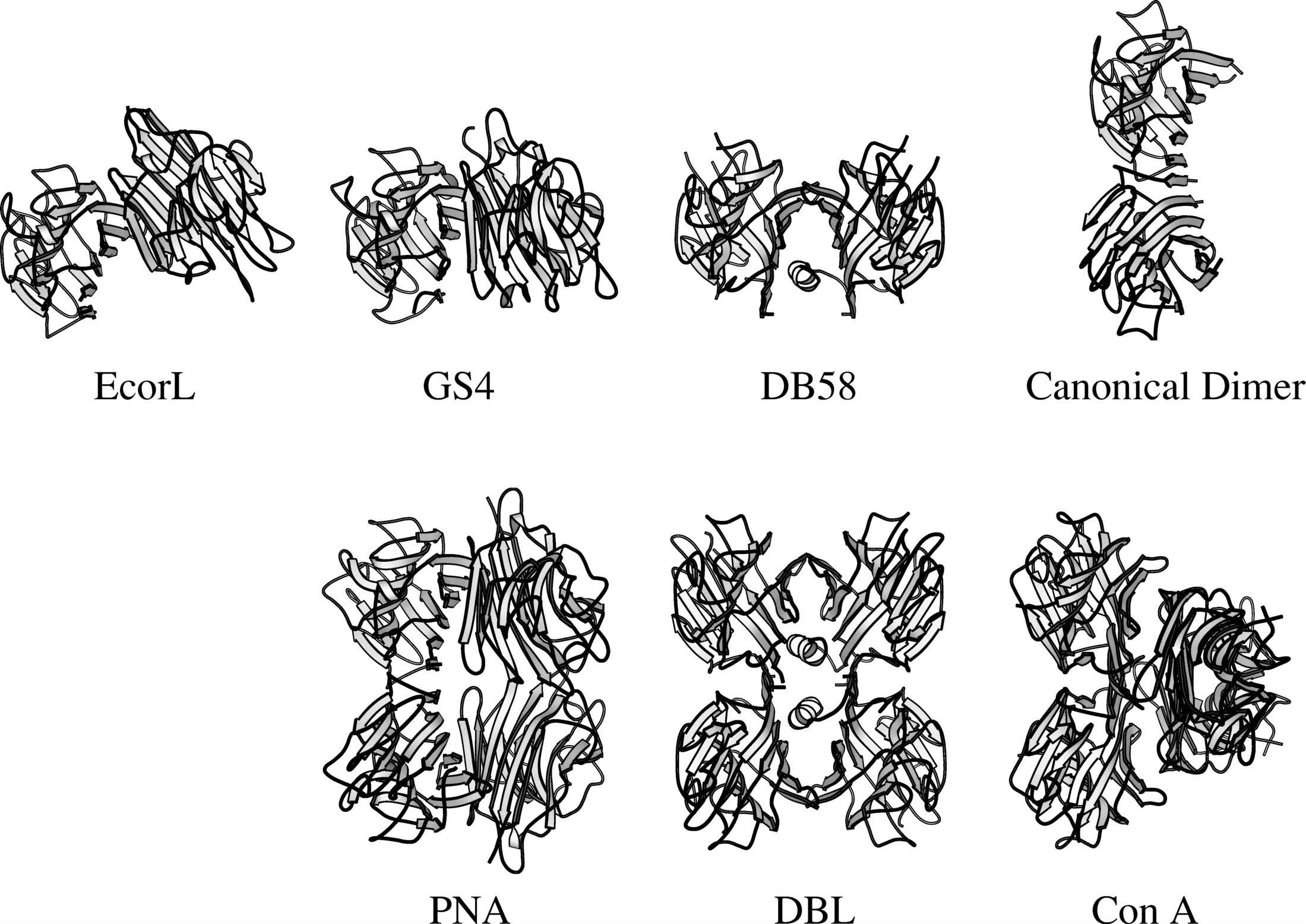 Quaternary structures of some legume lectins. One of the subunits is in the same orientation in all structures for ease of comparison.